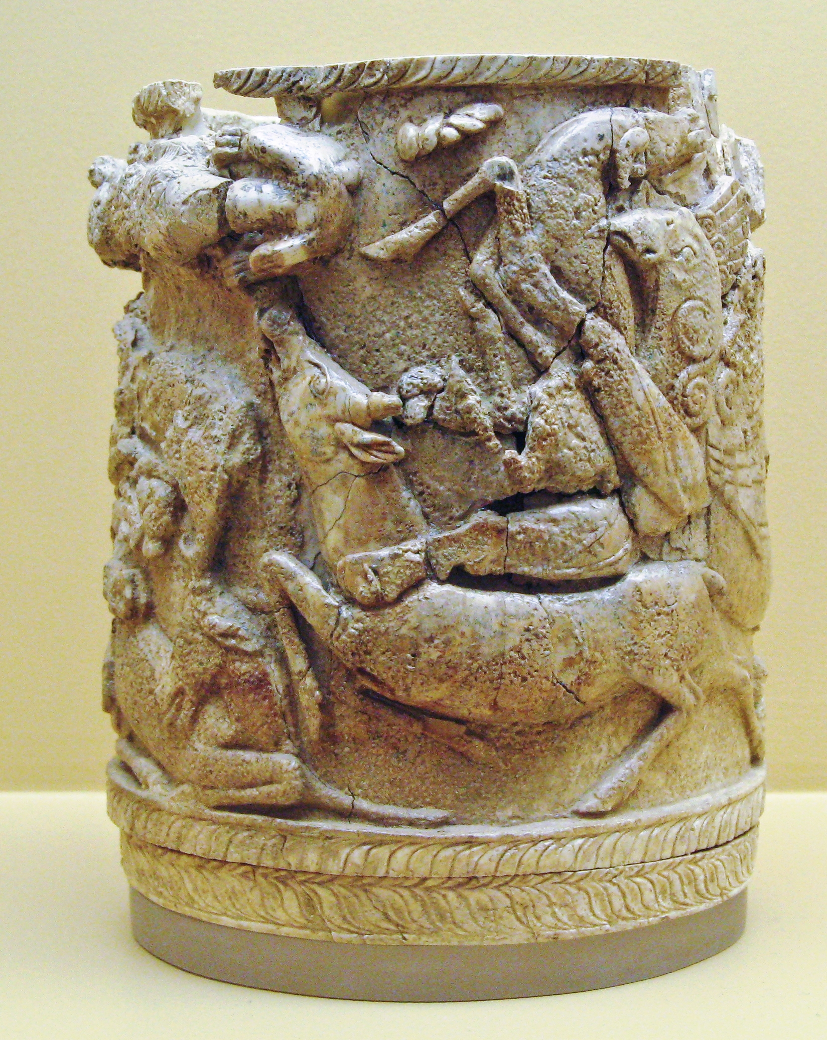 Ivory Pyxis with Griffins Attacking Stags. Late 15th century BC. Ancient Agora Museum in Athens.